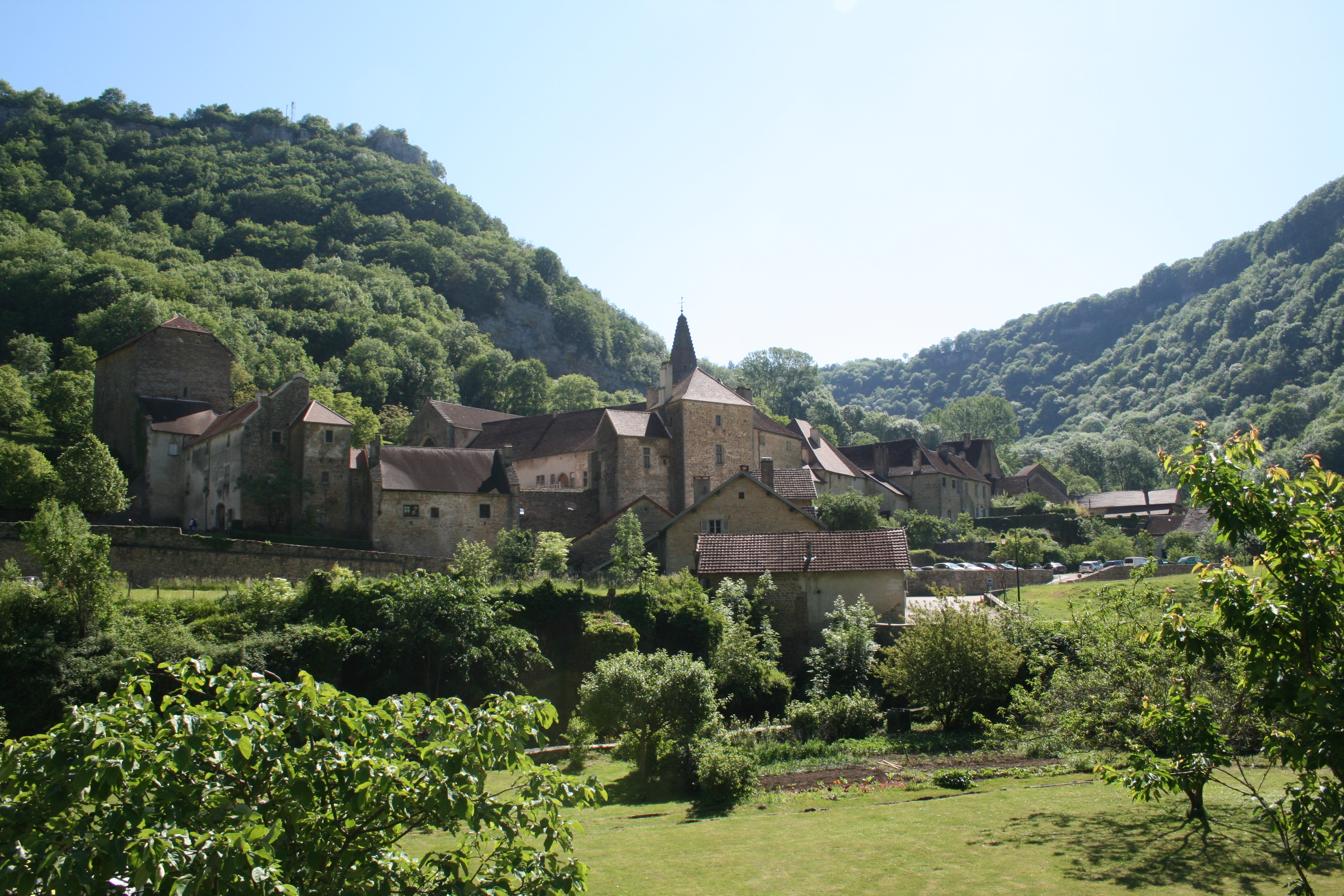 Baume-les-Messieurs (France), the village and the former Baume Abbey in the natural site of the steephead valley of the "cirque de Baume".